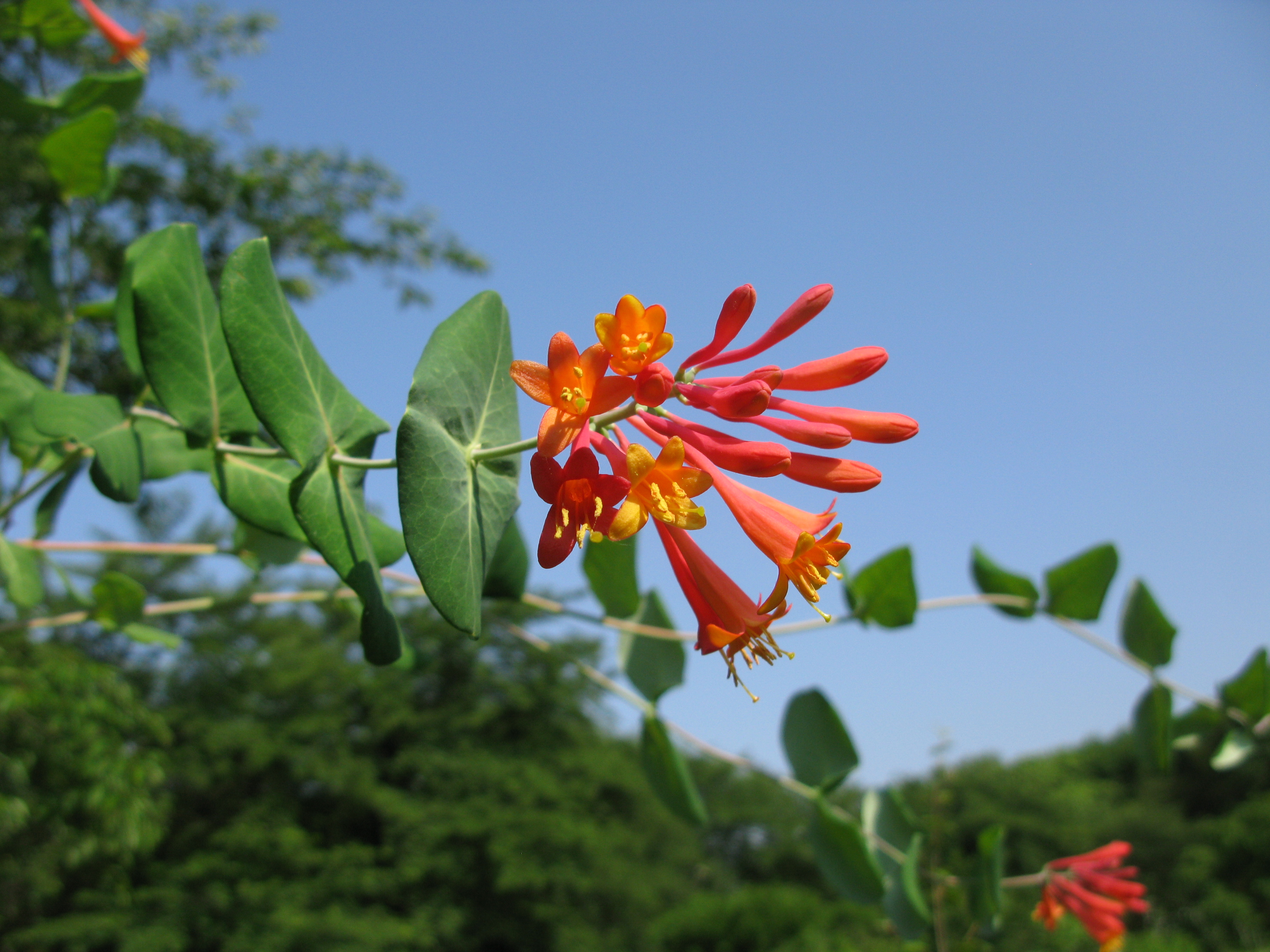 Lonicera sempervirens, Tokyo, Japan